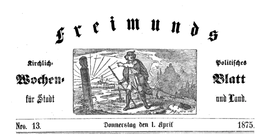 Title Page for the Freimunds Kirchlich-Politisches Wochenblatt (1875)